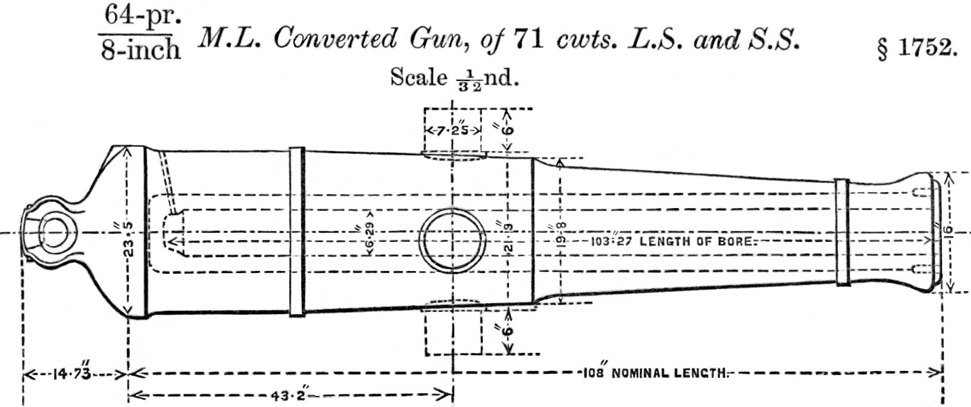 Diagram showing dimensions of barrel of British RML 64 pounder 71 cwt gun, converted from 8 inch smoothbore gun.